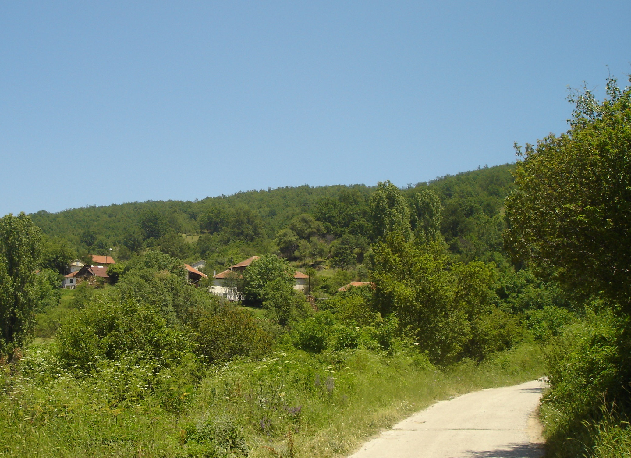 village of Osinchani, Macedonia